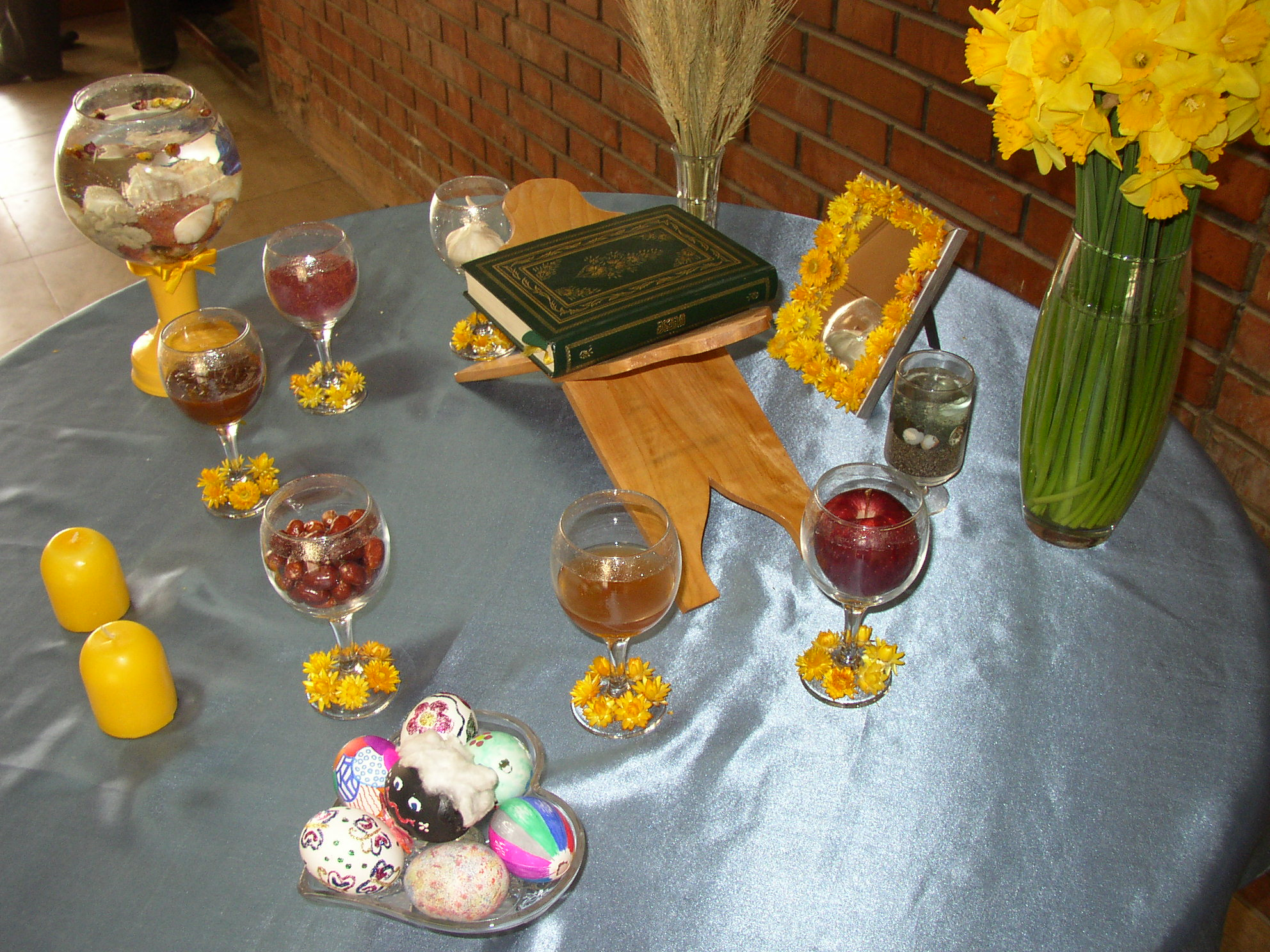 Haft-Seen which is used in Iran at Nowruz.